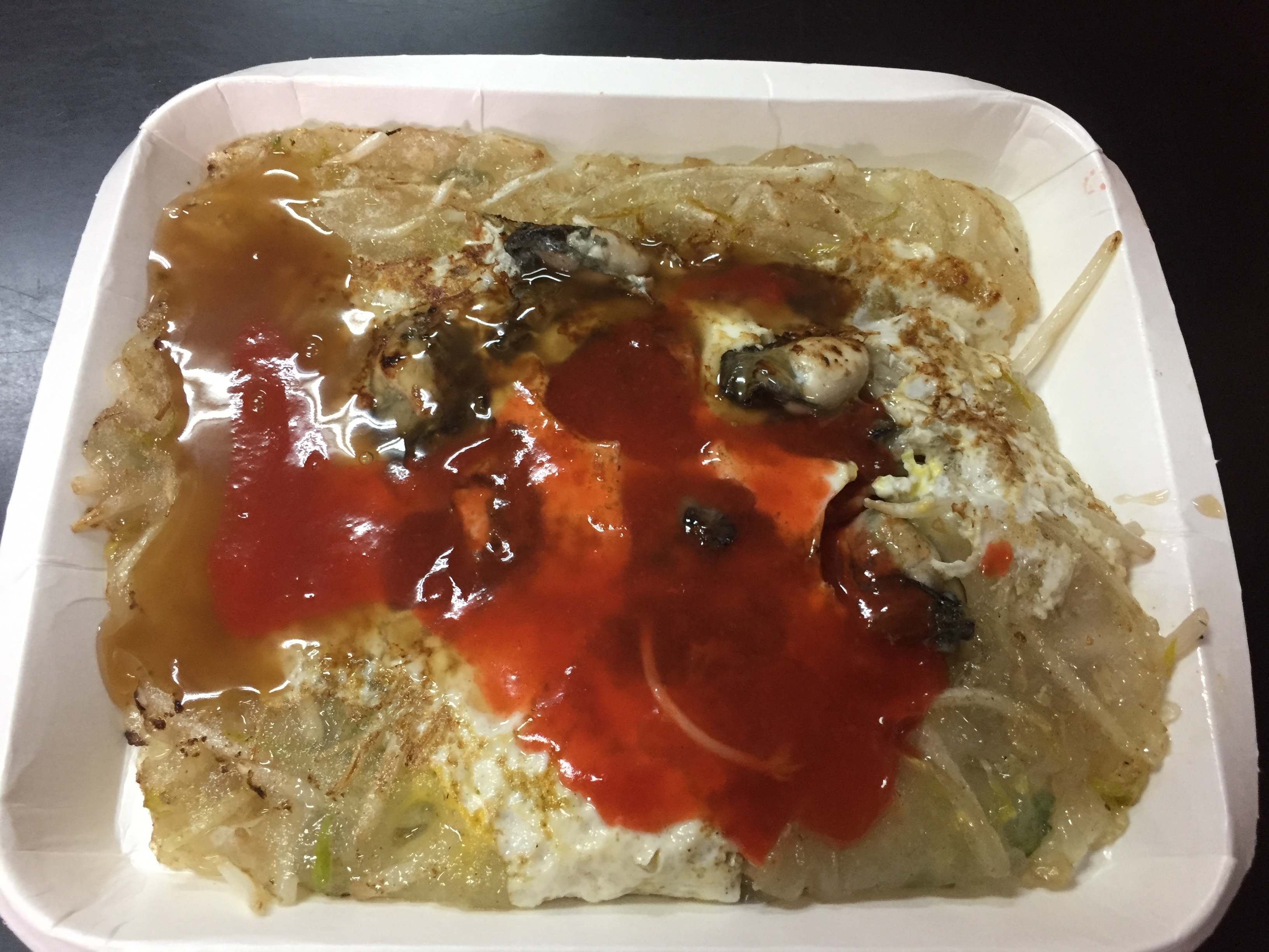 This is a picture of a famous traditional dishes from Taiwan. It is called oyster omelette.